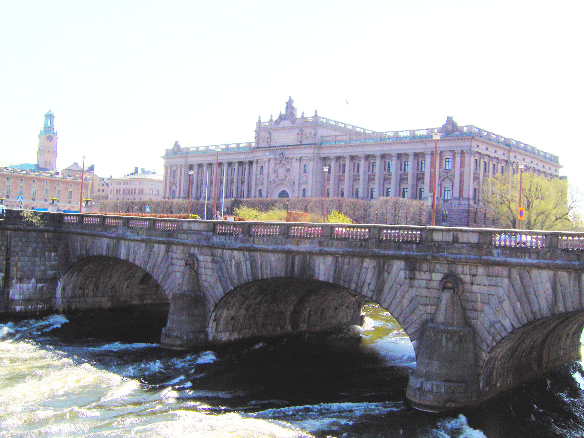 Norrbro, Stockholm, Sweden. The Swedish parliament in the background. Lake Mälaren streaming out in the Baltic Sea. 2006.